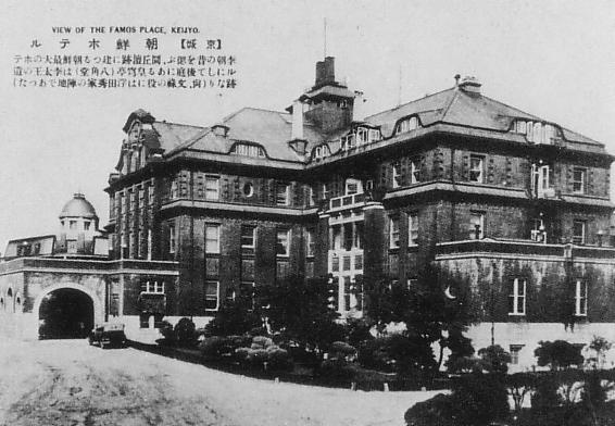 Chosen Hotel(present-day "Westin Chosun Hotel")